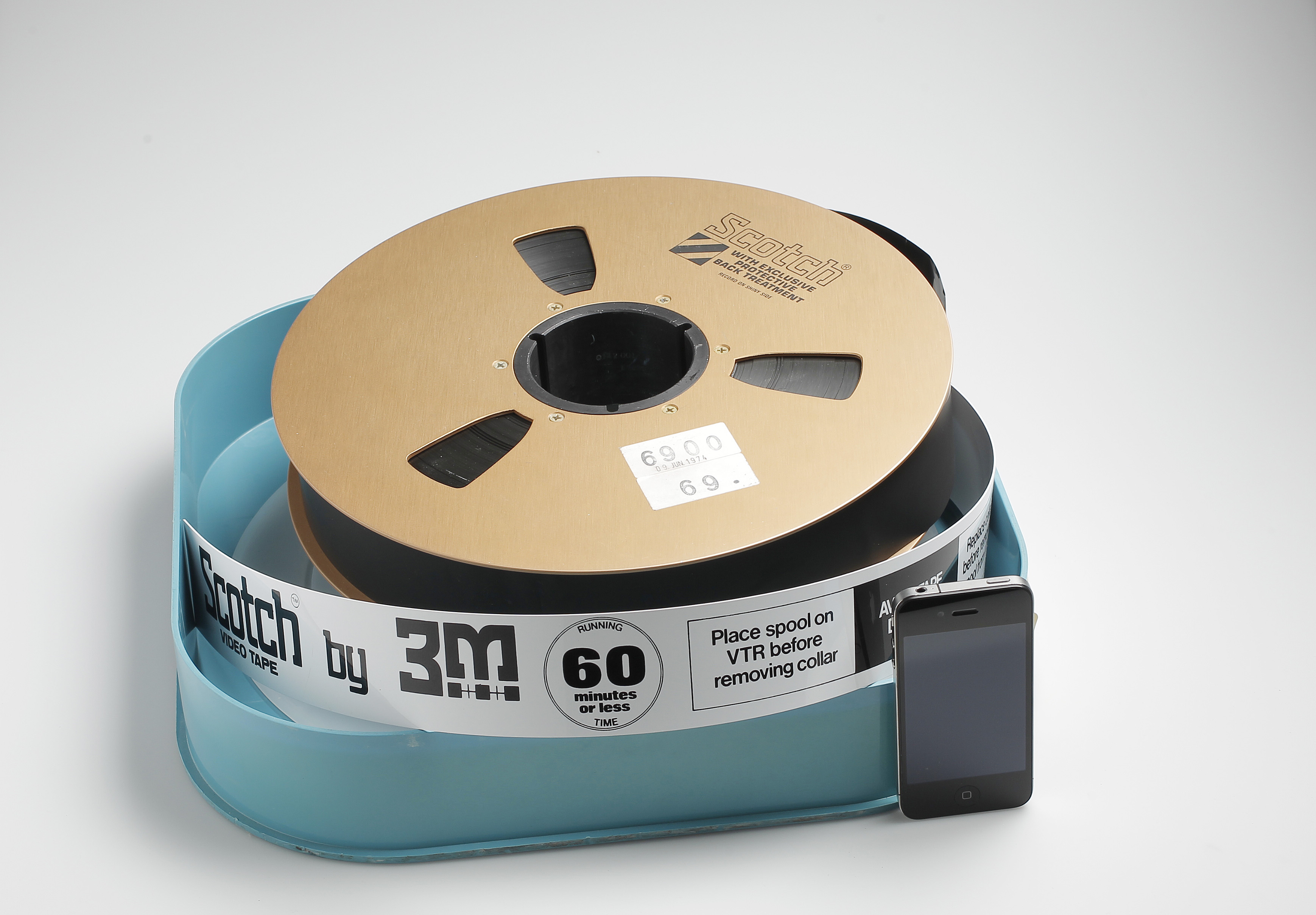 Danmarks Radios arkiv af DRs Kulturarvsprojekt / The archive of the Danish Broadcasting Corporation Photos must be credited "DRs Kulturarvsprojekt"